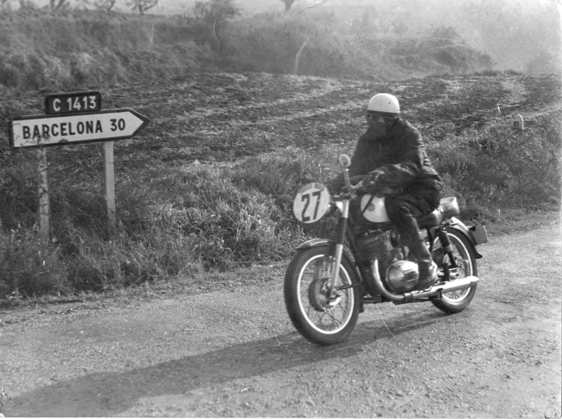 Josep Marti Barnils in the early 1970s (probably in 1970) on a Derbi 250 racing in the Volta al Vallès, by the road to Sentmenat